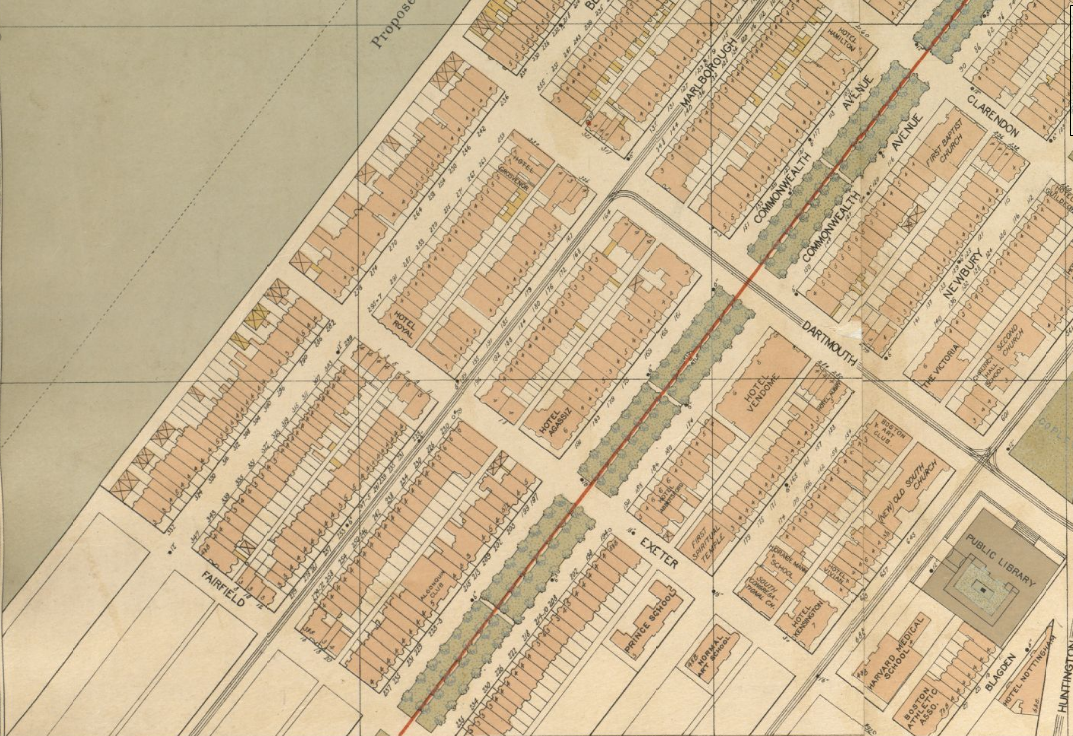 Detail of map of Boston, Massachusetts, USA. Title: Map of the central business district of Boston Publisher: Geo. W. Stadly & Co. Date: 1896